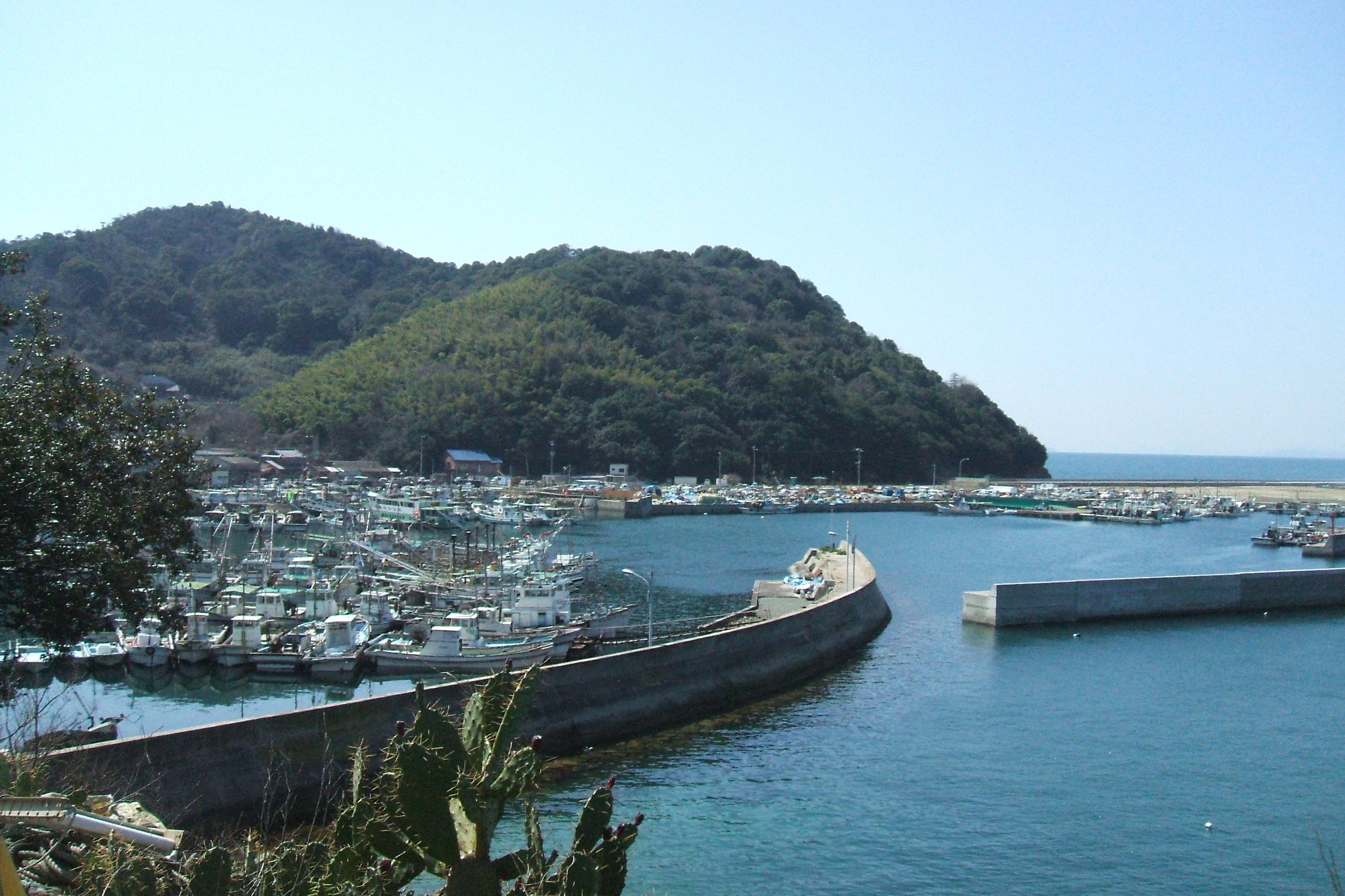 Hashiri Jima in Setonaikai.